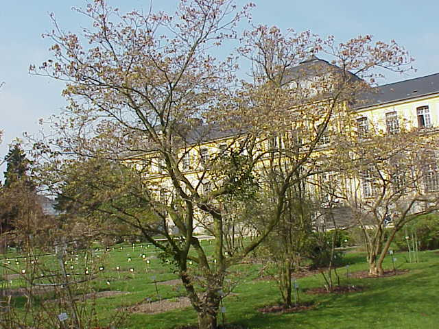 Species: Acer palmatum Family: Aceraceae Image No. 1